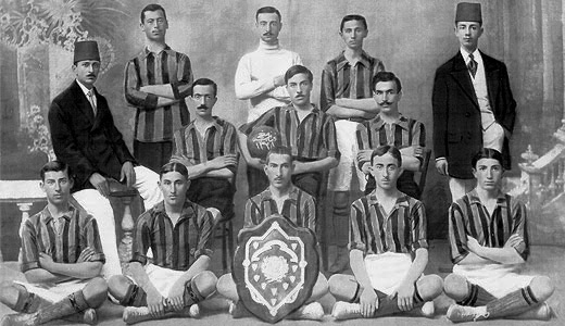 Fenerbahce in 1912